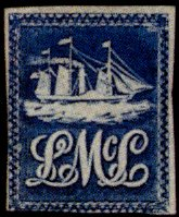 Lady McLeod, Stamp from Trinidad.